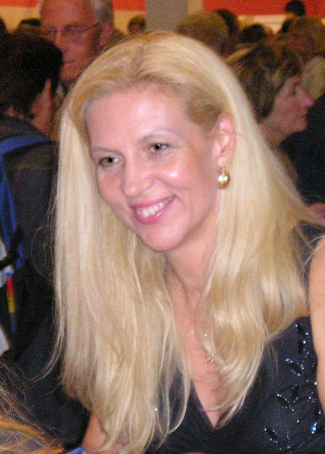 Photo taken at Gothenburg Book Fair 2005 by Lennart Guldbrandsson